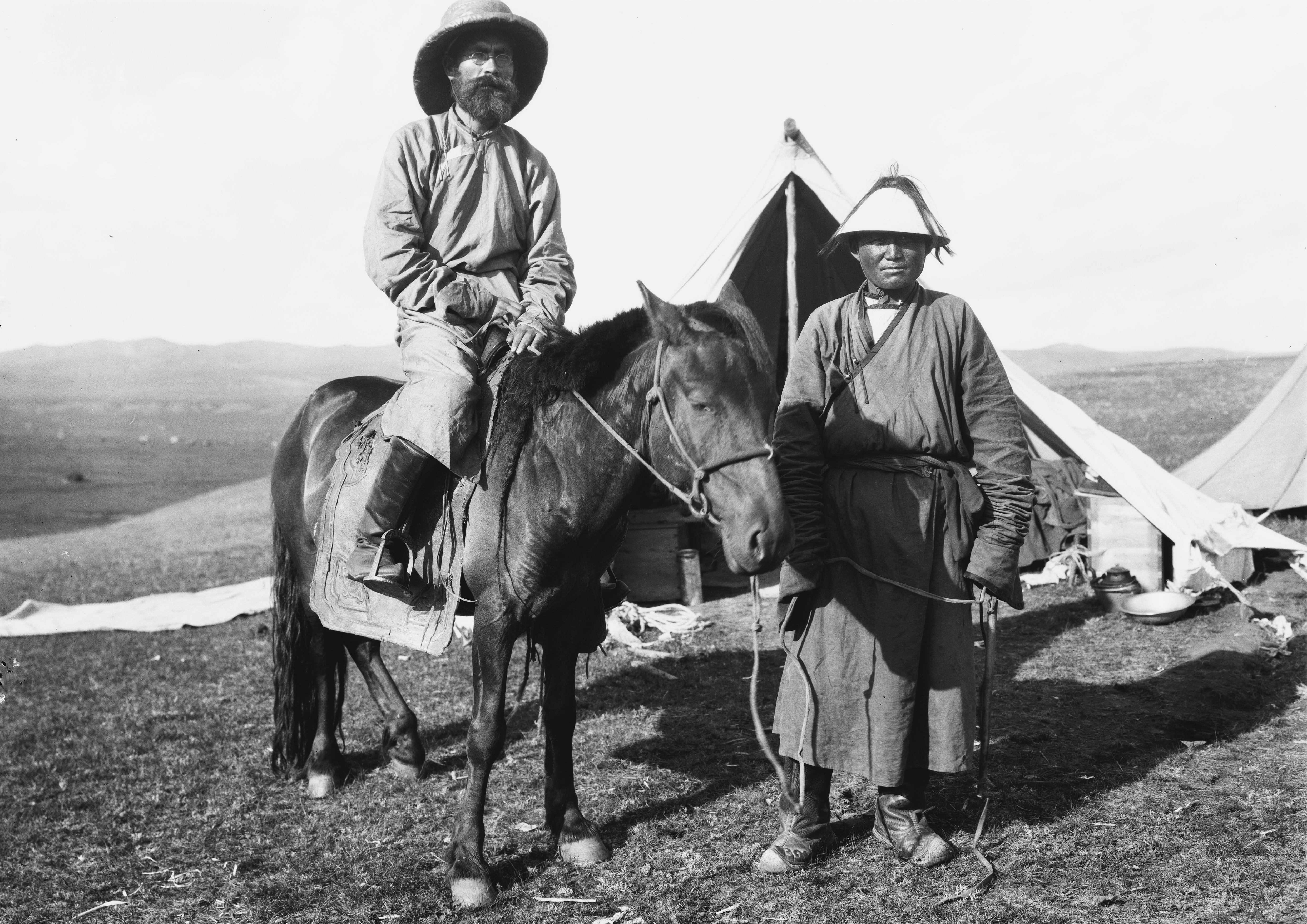 Photograph of the Finnish linguist and explorer Gustaf John Ramstedt (1873–1950) and his guide Baldzir in Mongolia.